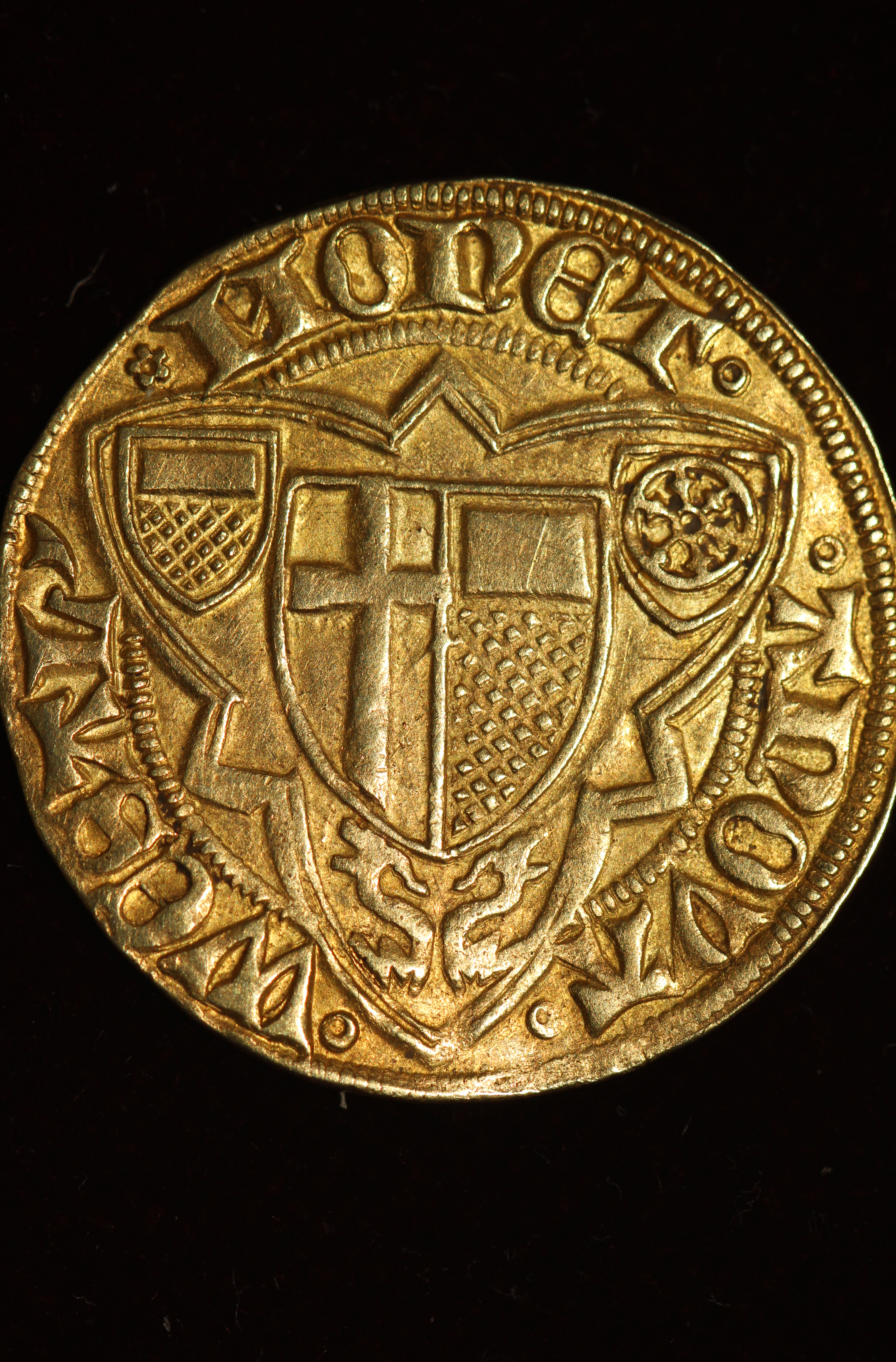 Gold guilder minted at Oberwesel in 1370 under the reign of Werner III von Falkenstein, archbishop of Trier, displayed at the Municipal museum Oberwesel, Germany, inscription: WESAL MONETA NOVA - WESEL NEW MINT/coin); in the centre the coat of armes of Werner III as archbishop of Trier, top left his original coa, top right the coa of the Electorate of Mainz ("gules a six-spoked wheel argent")